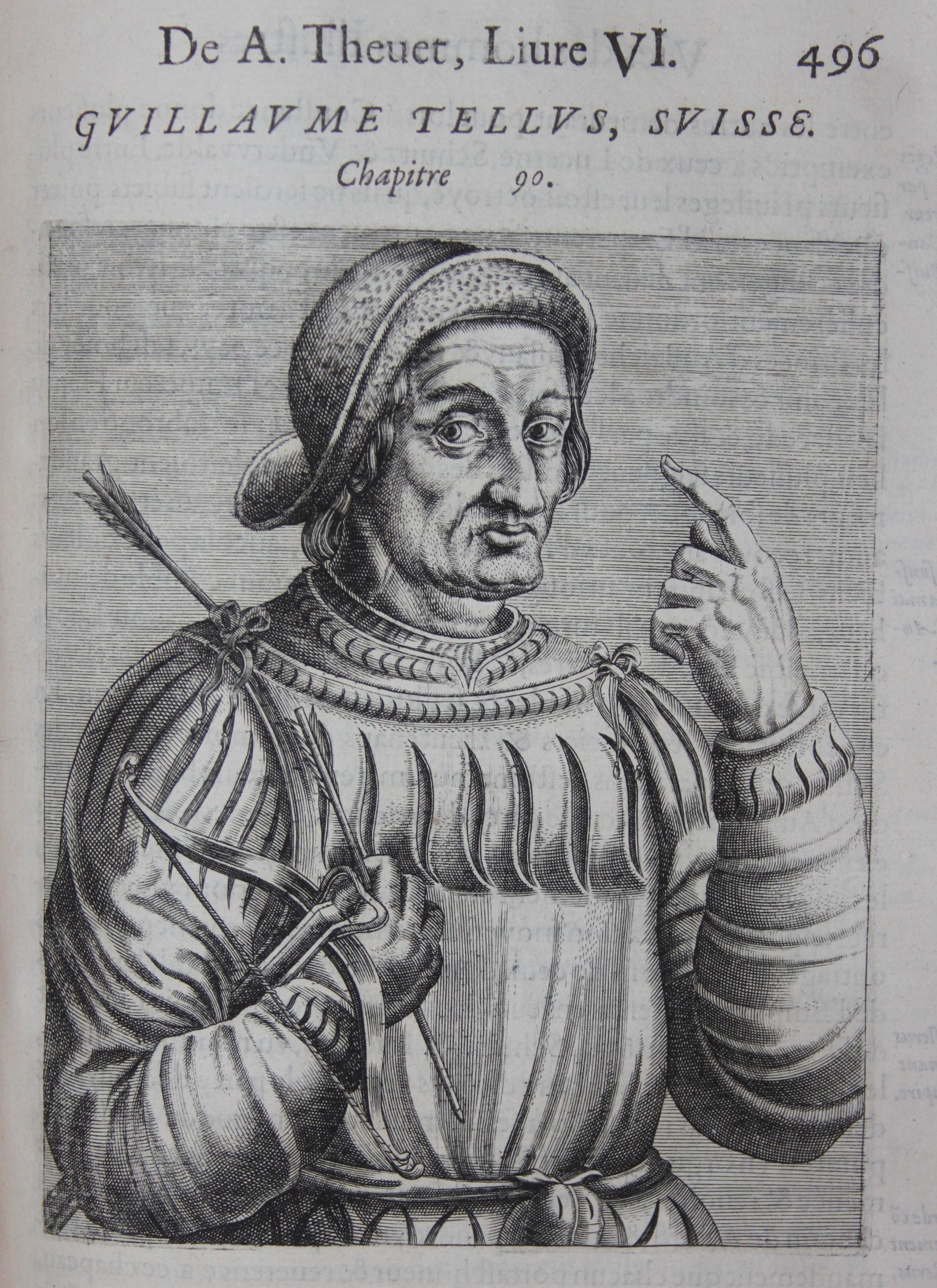 William Tell, Pourtraits et Vies des Hommes Illustres, André Thévet, Paris 1584